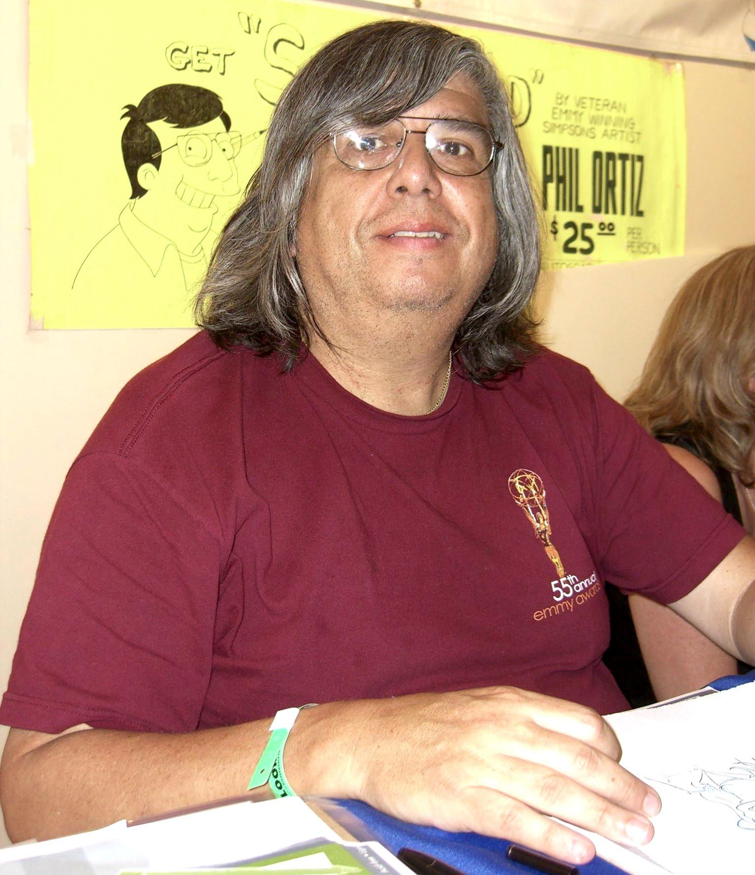 The Simpsons animator Phil Ortiz at the Big Apple Convention in Manhattan, May 21, 2011. Photographed by Luigi Novi. This photo is not in the public domain. It may, however, be used, modified and published for any purpose, free of charge, only if the photographer is properly credited, either by linking the photograph to this page, or with an easily visible credit to the photographer placed near the photo in each instance in which it is used. (See licensing information below.) Publication of this photo without this proper attribution constitutes copyright infringement. If you have any questions, you can contact me on my Wikipedia Talk Page.